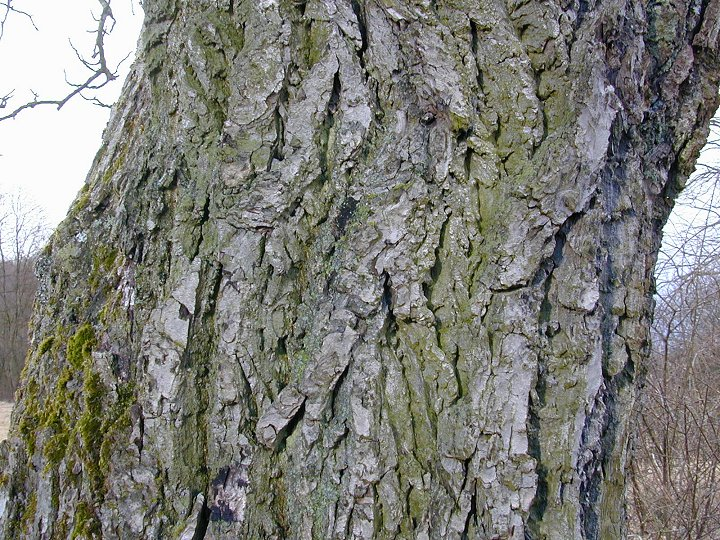 Bark of an old Walnut-Tree